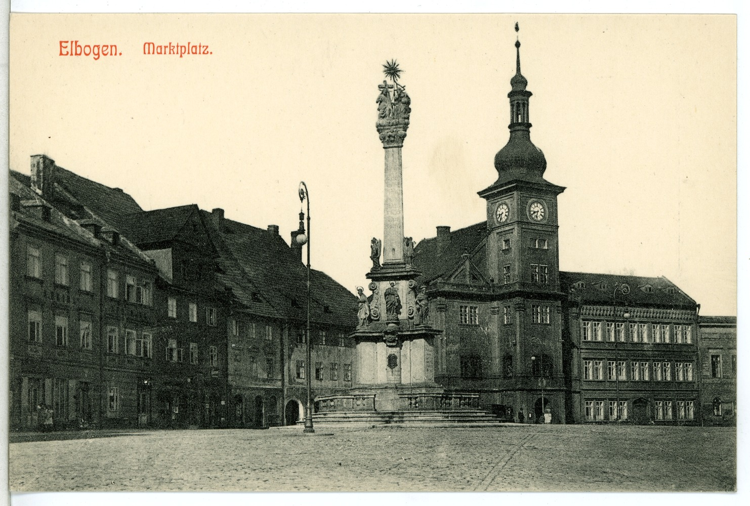 This postcard is from publisher Brück & Sohn in Meißen ( This postcard has a unique number 12429 and is available in a higher resolution at the publisher. This images was uploaded in a cooperation project between Wikipedians and the publisher.